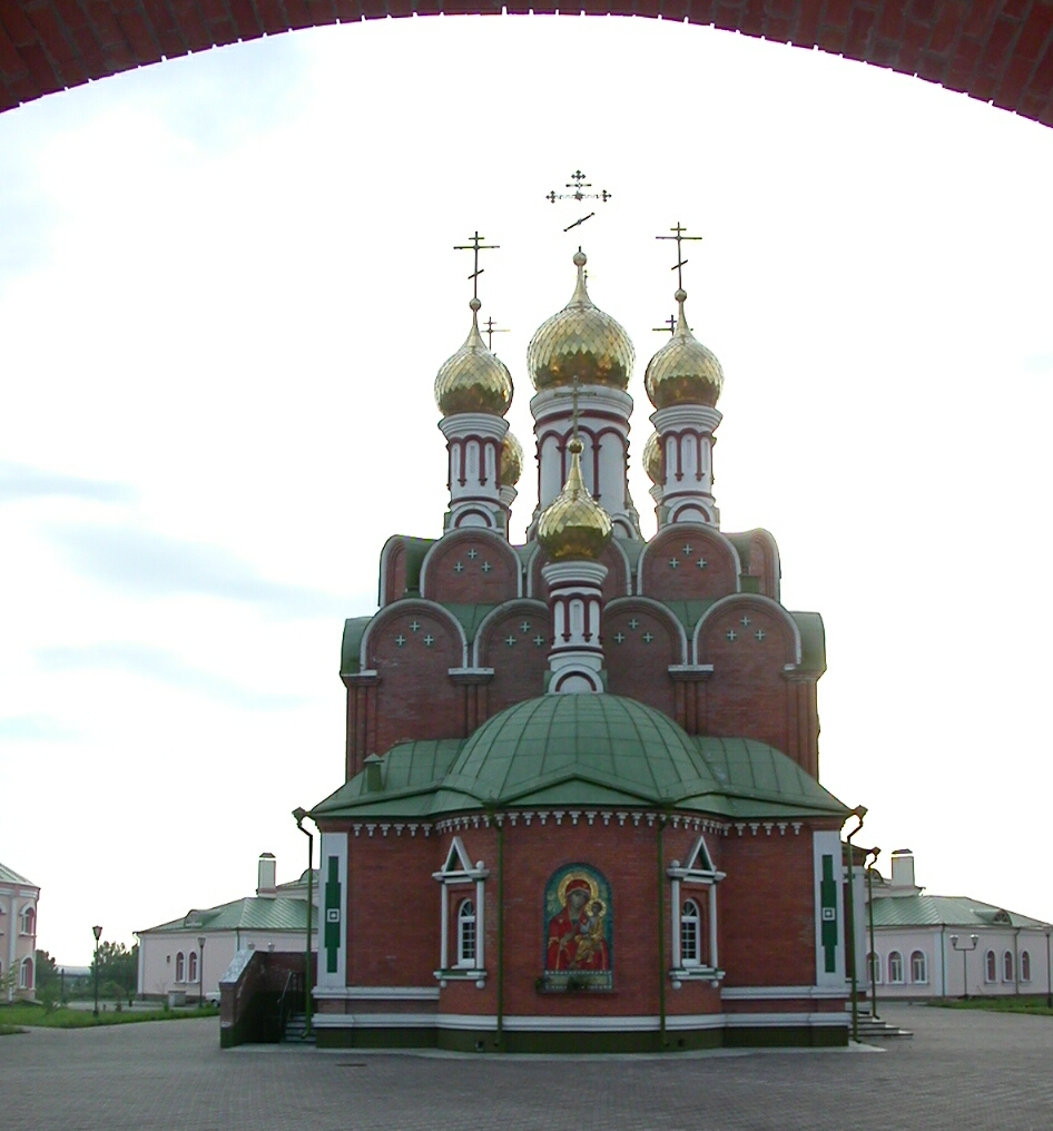 Church in Kiselevsk, view from main gate